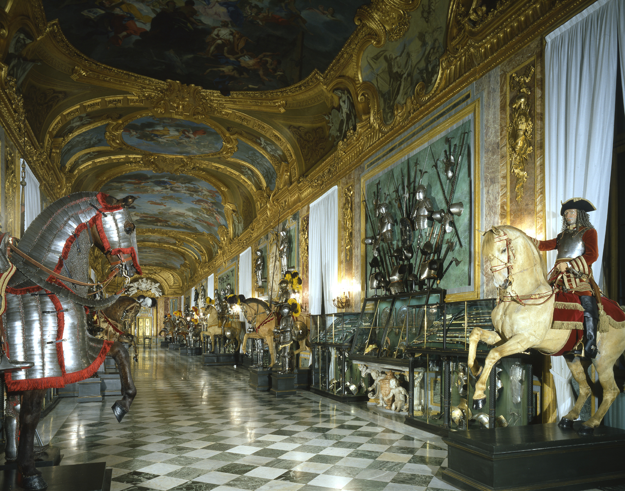 Galleria Beaumont in the Royal Armoury of Turin. A destra, l'armatura di battglia di Eugenio di Savoia.